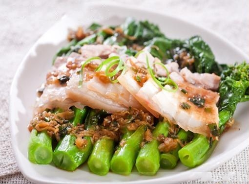 A dish from Hemibagrus elongatus (=Syn. Mystus elongatus), Việt Trì, Việt Nam